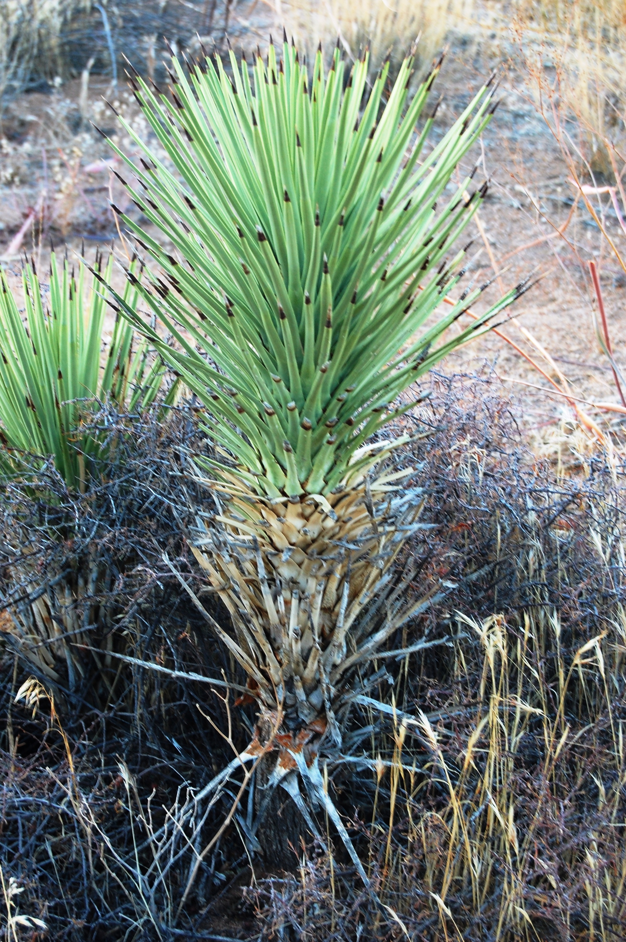 Young Joshua Trees (Yucca brevifolia) seen from the top in Joshua Tree National Park: Hidden Valley Campground